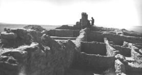 View of the Awatovi Ruins, a National Historic Landmark on the Hopi Reservation in Navajo County, Arizona, United States.